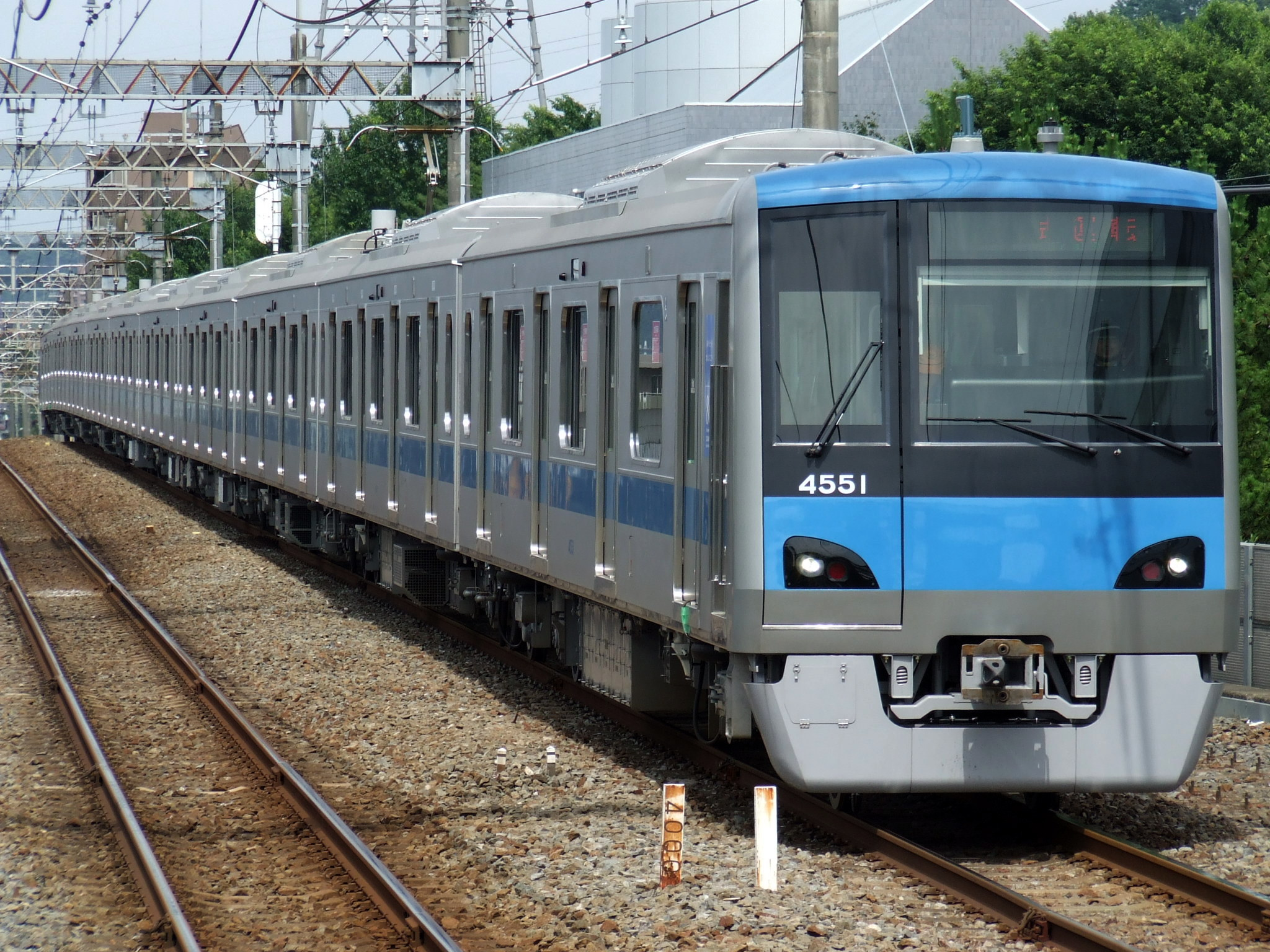 Odakyu 4000 series EMU set 4051 undergoing test running on the Odakyu Tama Line